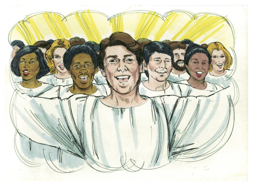 Biblical illustration of Book of Revelation Chapter 21